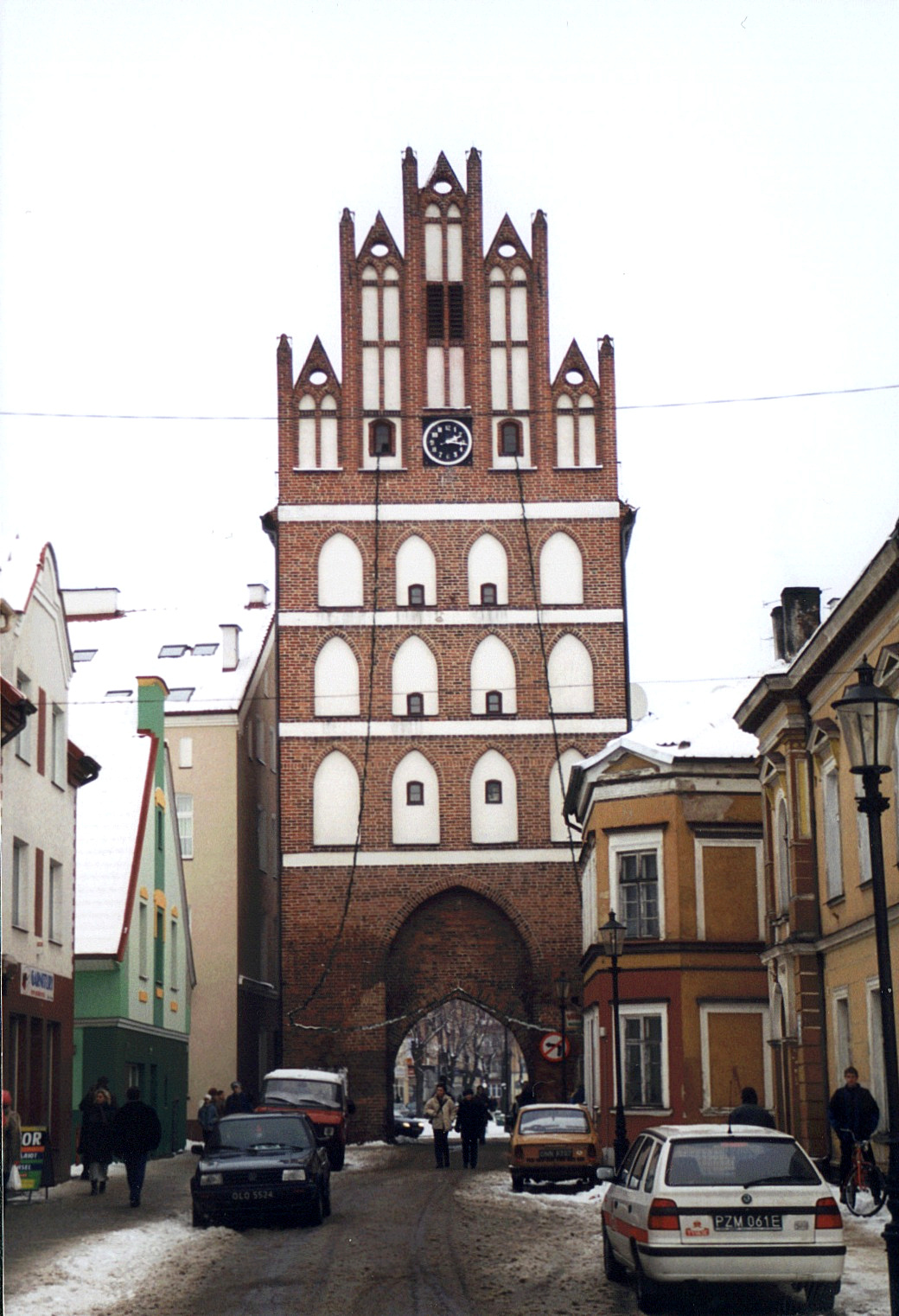 Heilsberger Tor in Bartoszyce (Bartenstein) self taken picture end of december 1999 I give it to GNU-FDL